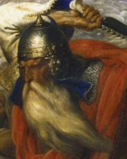 Abdul Rahman Al Ghafiqi, Muslim Conqurer of the Gaul.